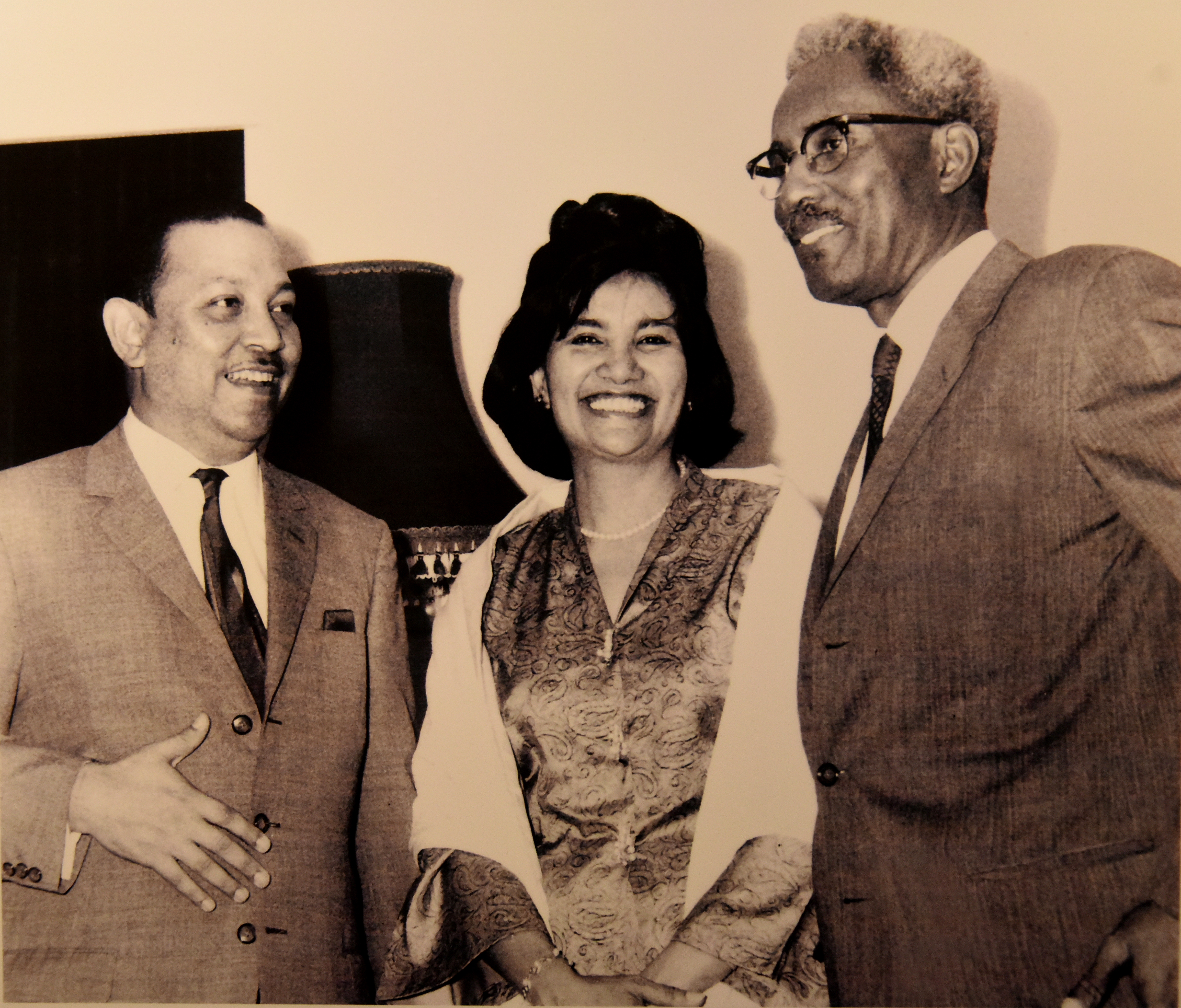 Tunaku Ja'afar and his wife Tuanku Njihah in an event at their home in Lagos, Nigeria in 1965, when he served as an ambassador. Unknown photographer. The original image is © the Tuanku Ja'afar Royal Gallery, Seremban, Negeri Sembilan, Malaysia.